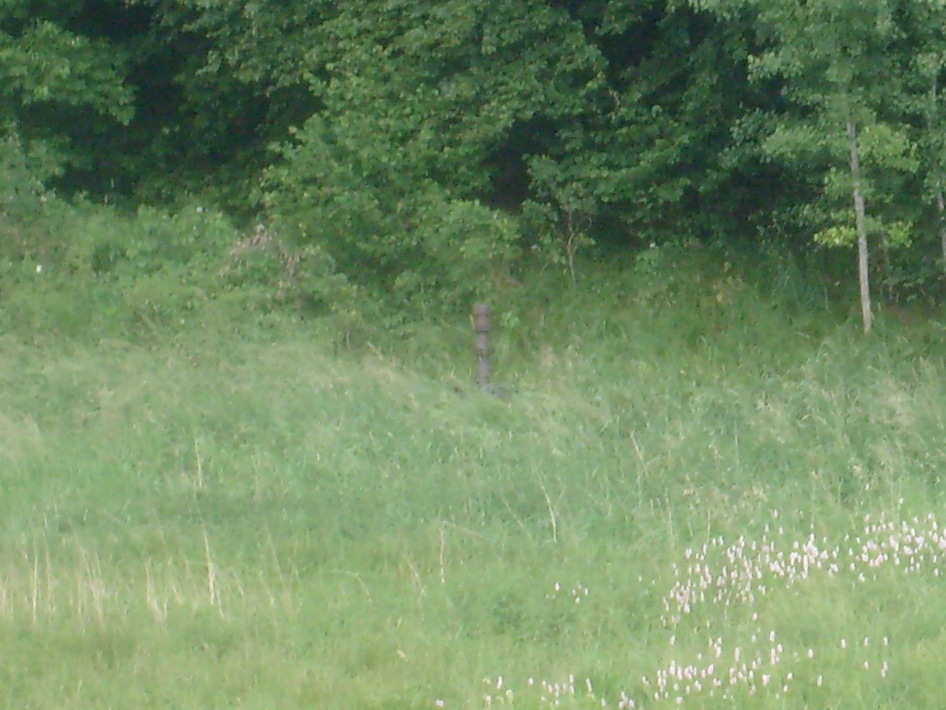 Spring of the Talbach, a stream in Krauchenwies, Germany.